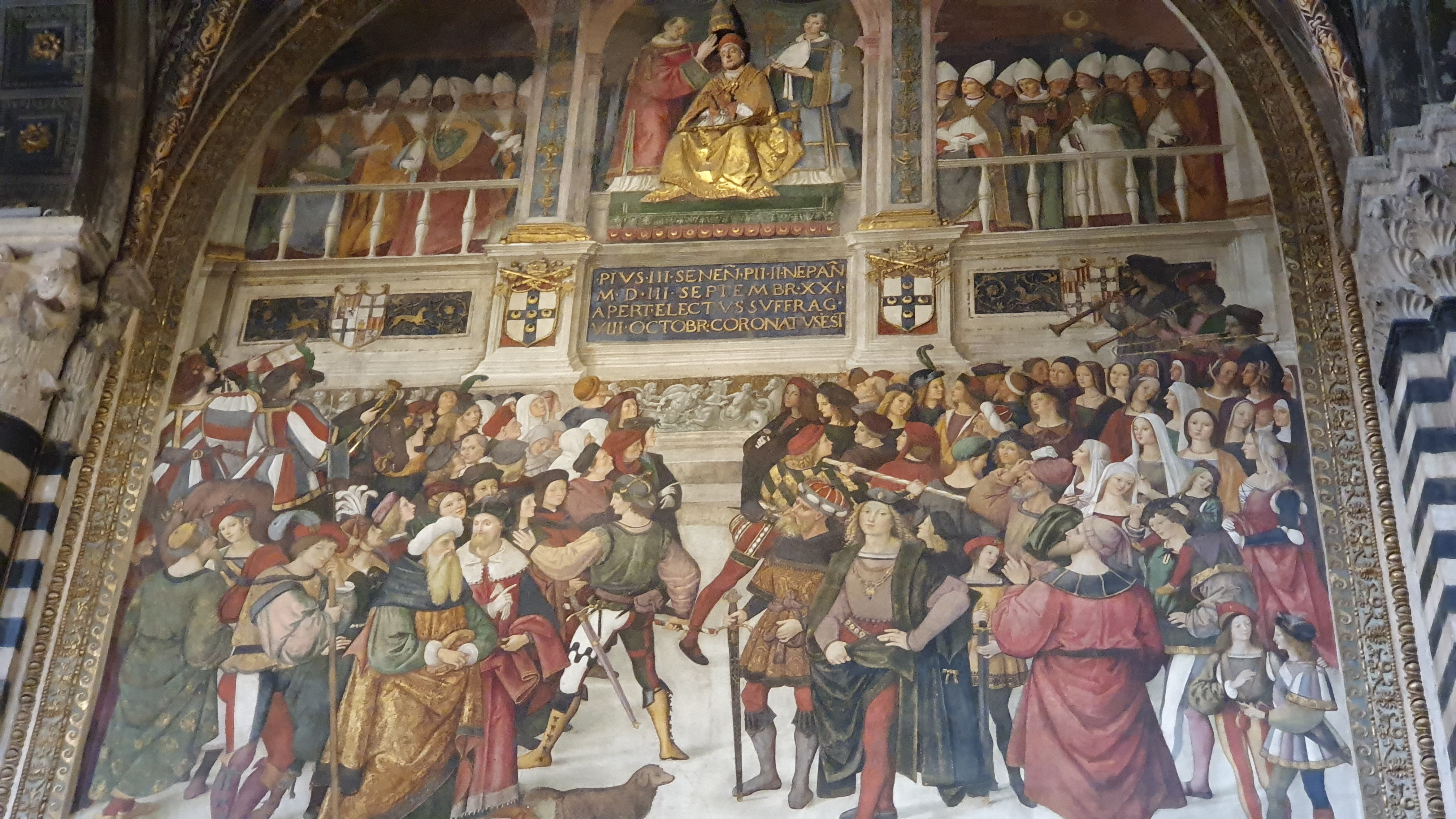 Coronation of Pius III by Pinturicchio